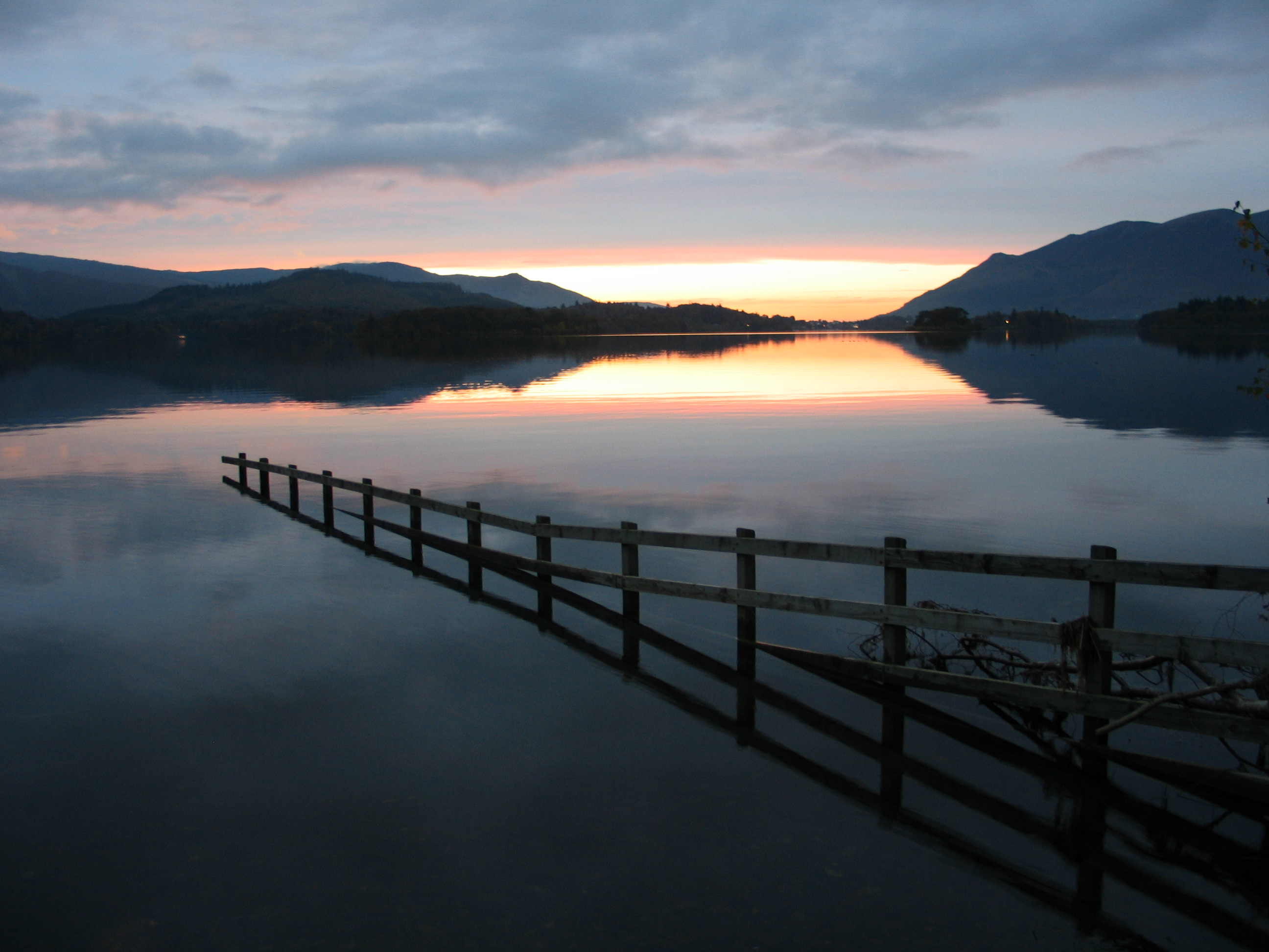 Originally uploaded as Image:Picture 008.jpg on 19:56, 7 May 2005 by User:I-hunter . Moved from generic image name.